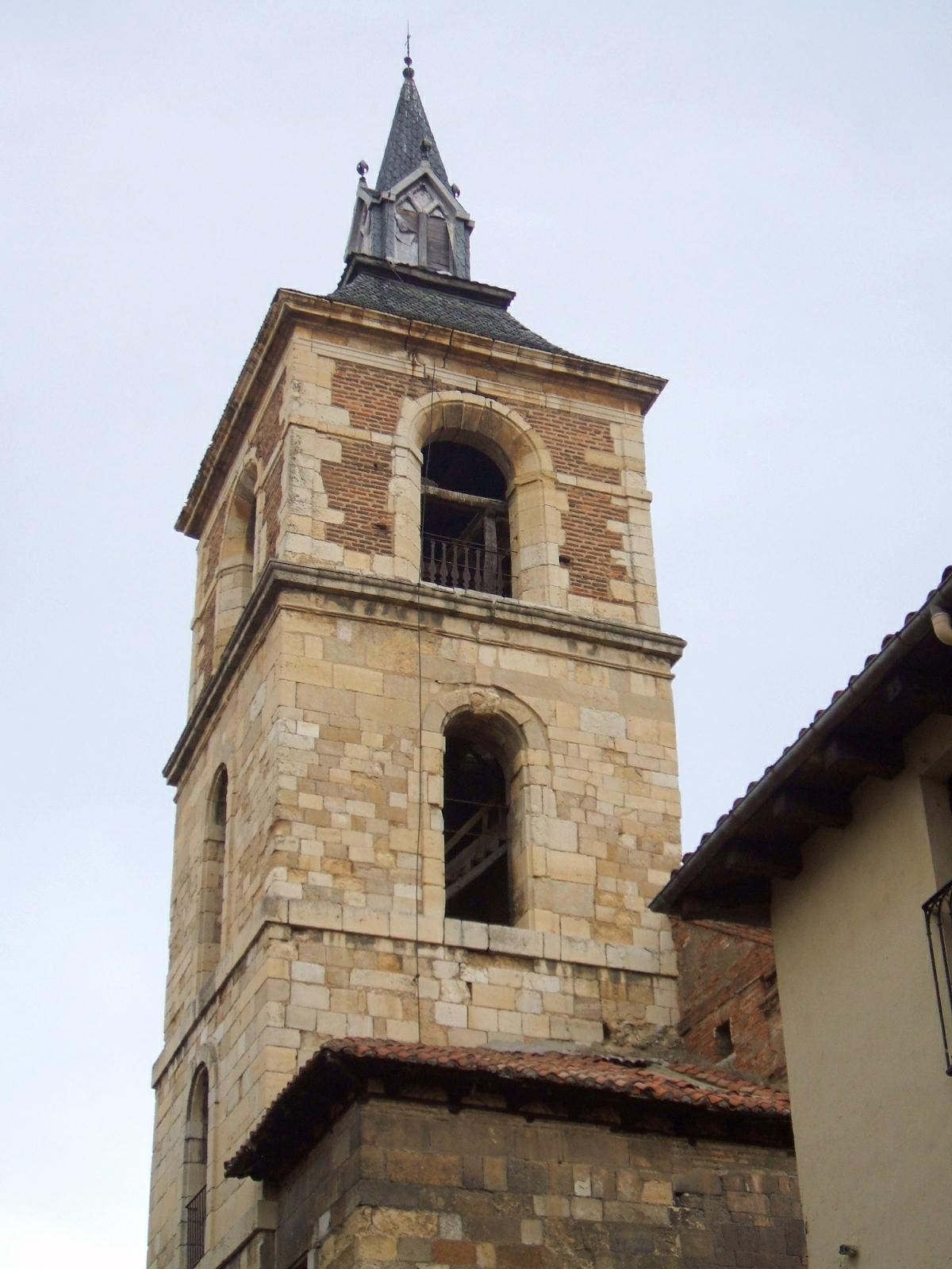 Iglesia de Nuestra Señora del Mercado, en León (España)